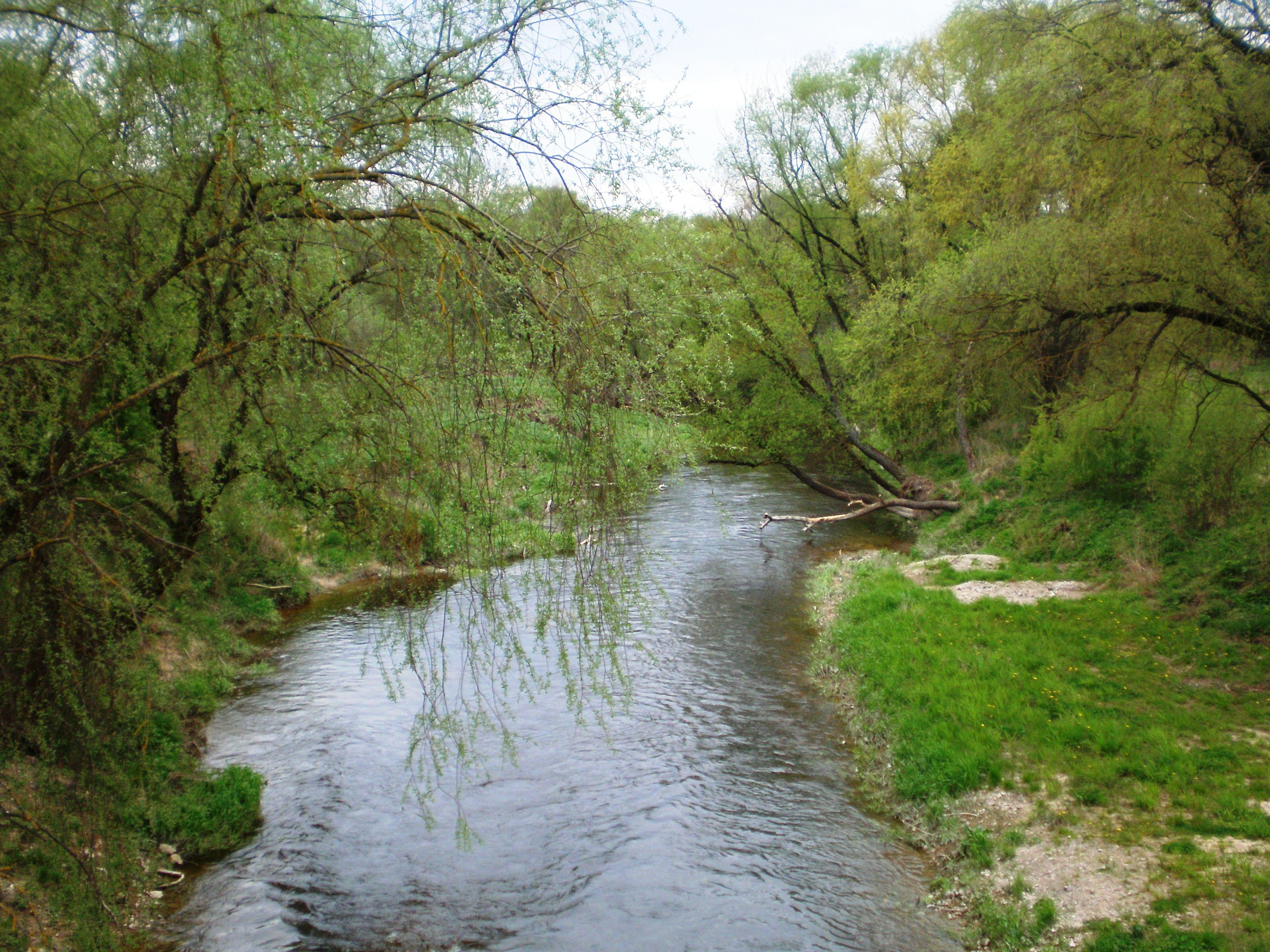 River Obelis near Kėdainiai